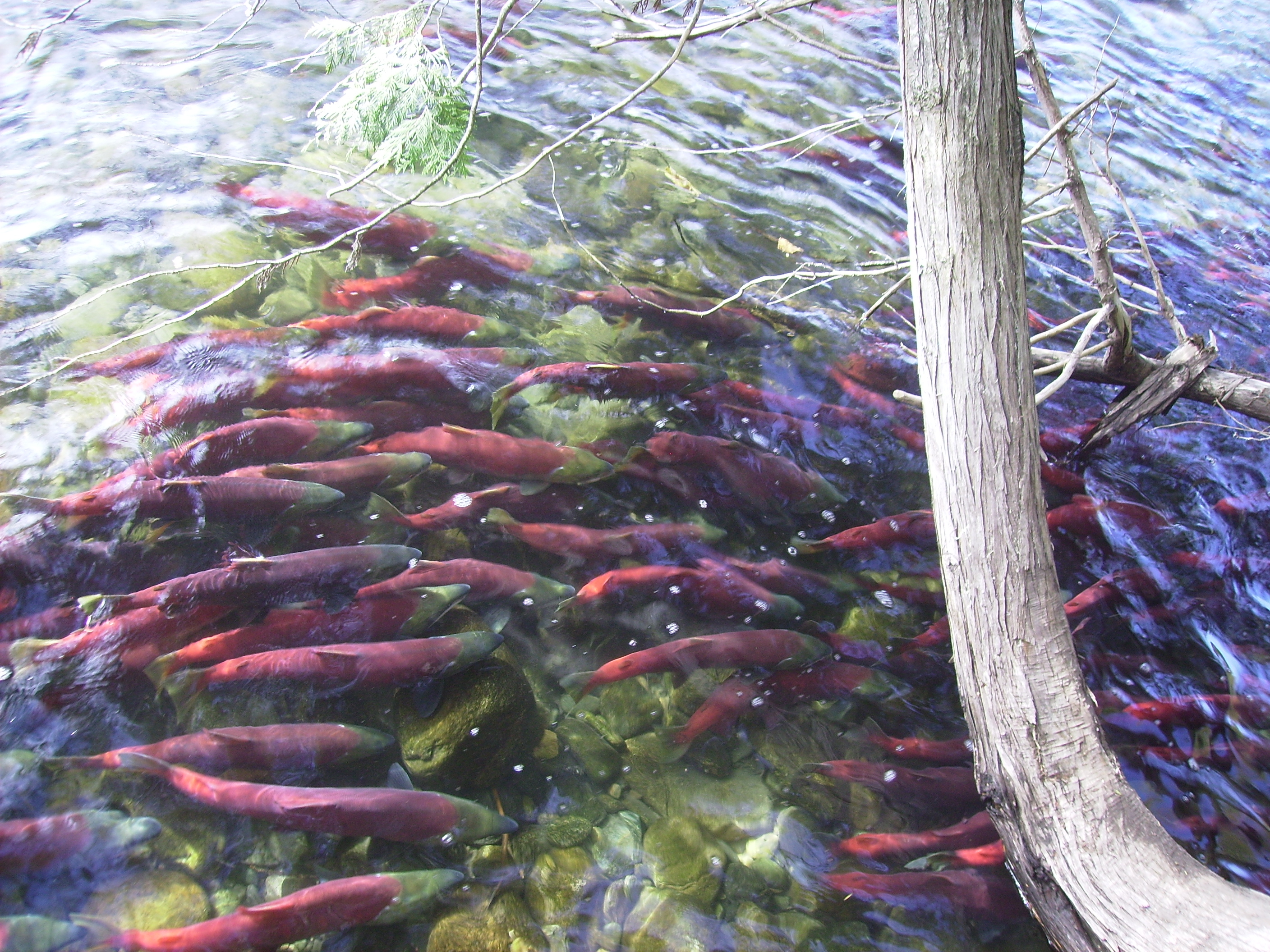 School of spawning sockeye salmon near the bridge on the Adams River, British Columbia, Canada